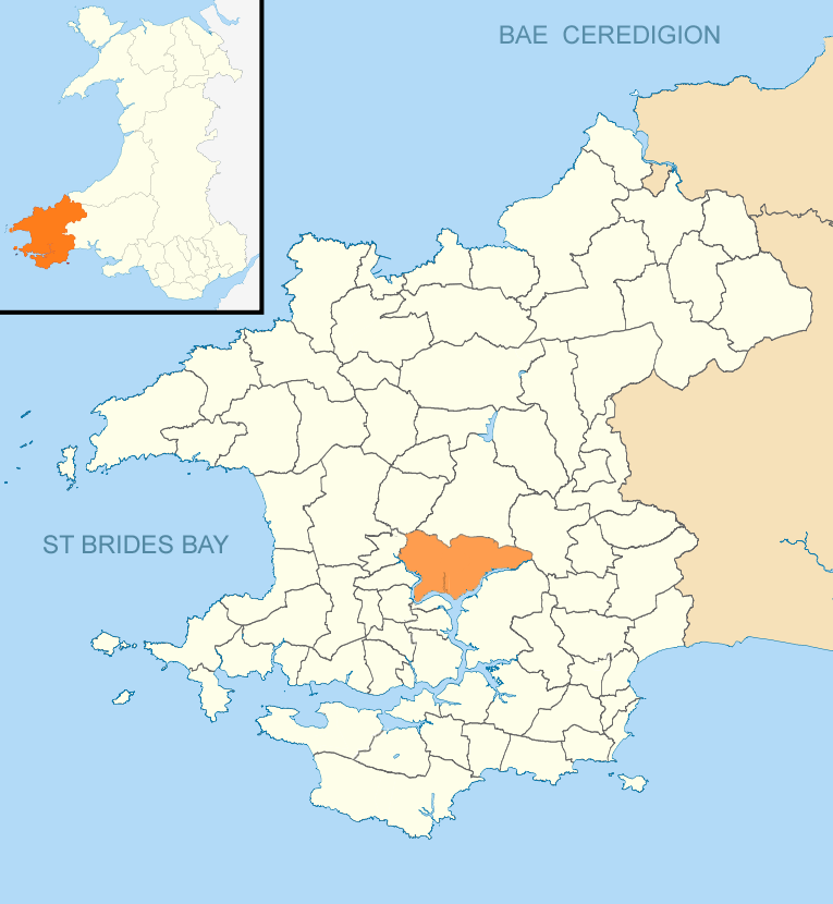 Location map of the community (civil parish) of Uzmaston Boulston and Slebech (post 2012) in mid Pembrokeshire, Wales